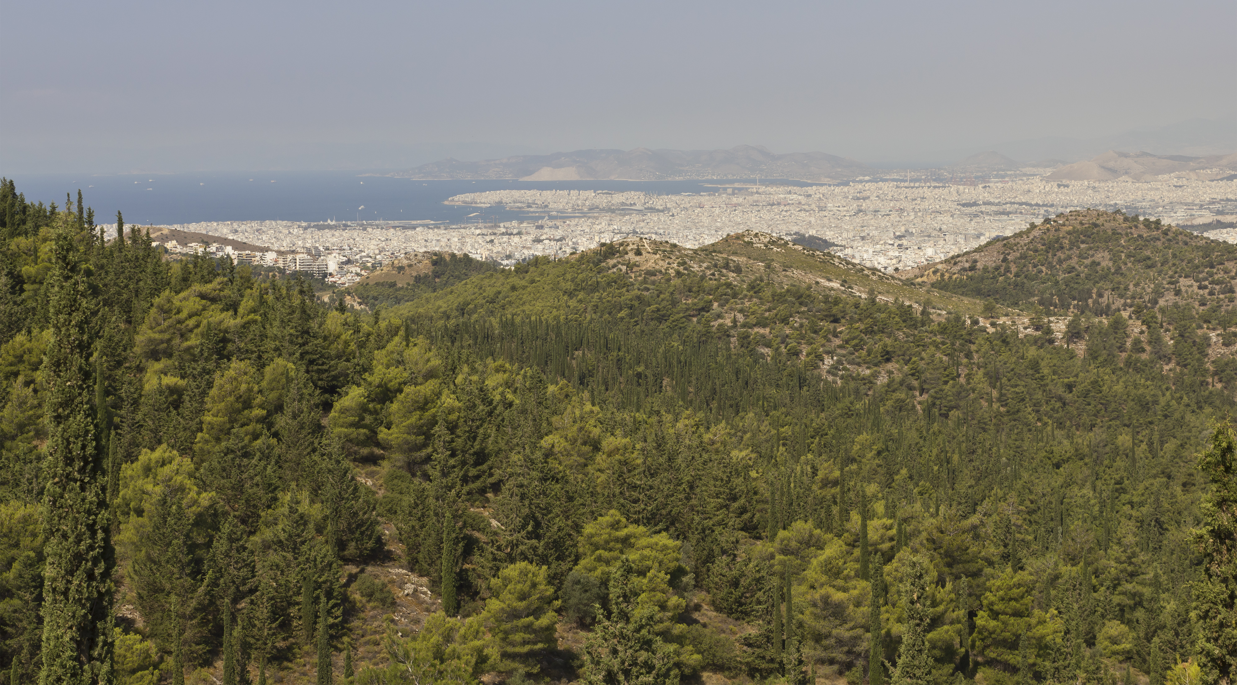 View from Kaisariani Hill to the suburbs of Athens (Attica, Greece)